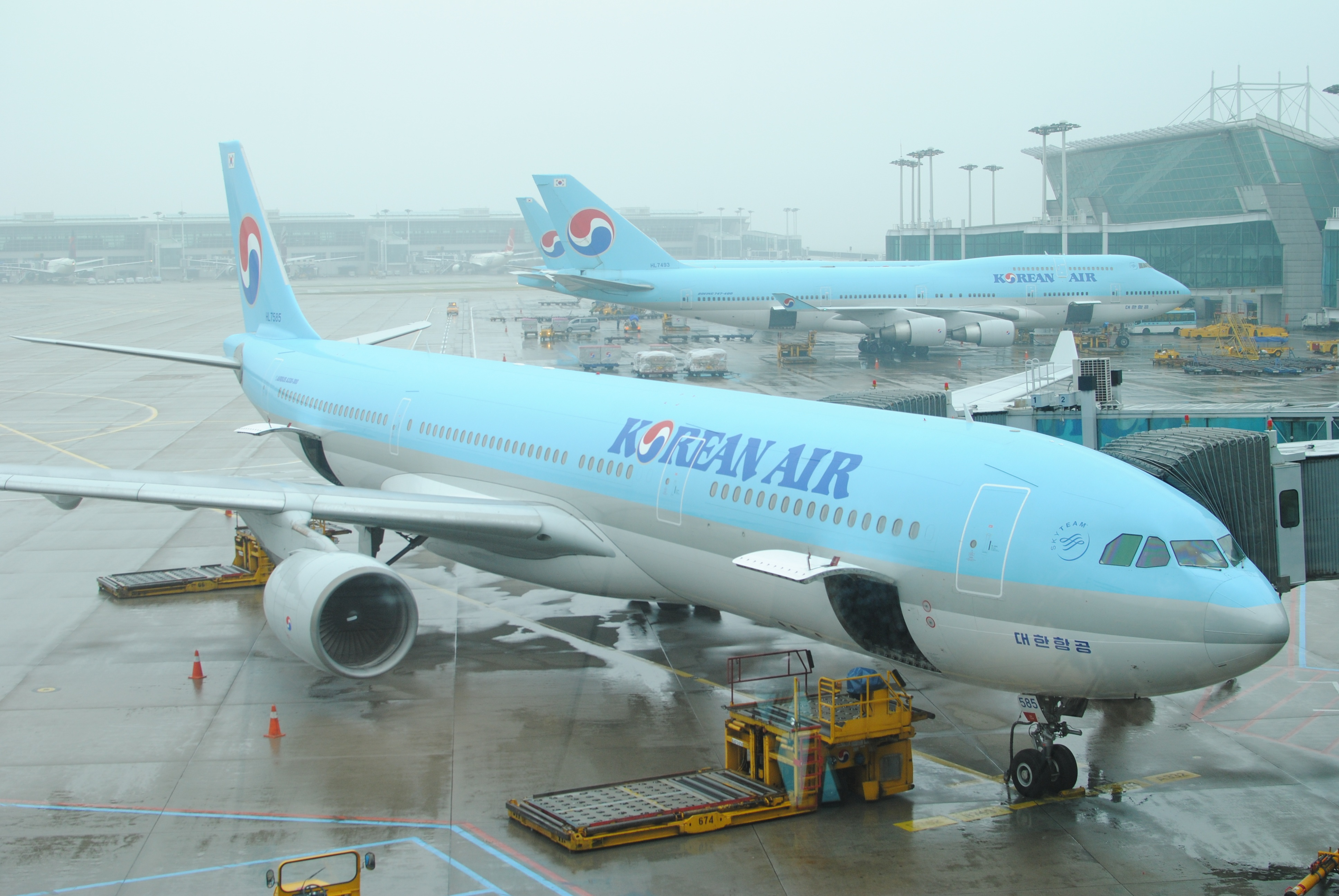 Incheon International Airport and Korean Air Aircrafts